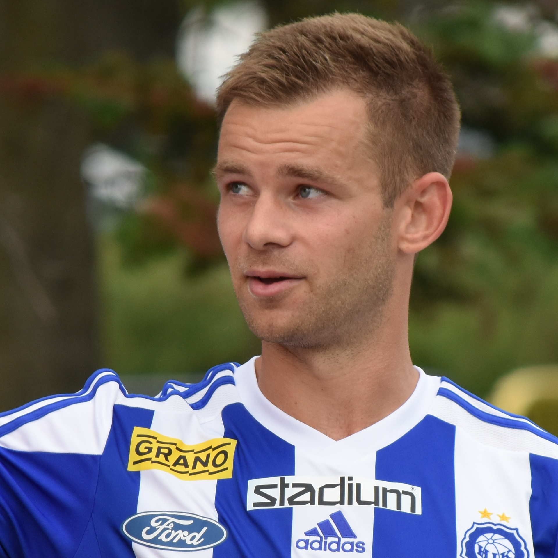 Association football player Mikko Sumusalo (HJK)